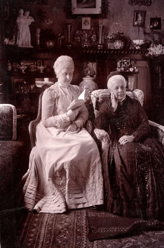 Marie of Saxe-Altenburg and her daughter, princess Marie of Hannover. Signed by the Queen "Marie R." Photograph on a postcard, on the back Carl Jagerspacher, Gmunden 1904